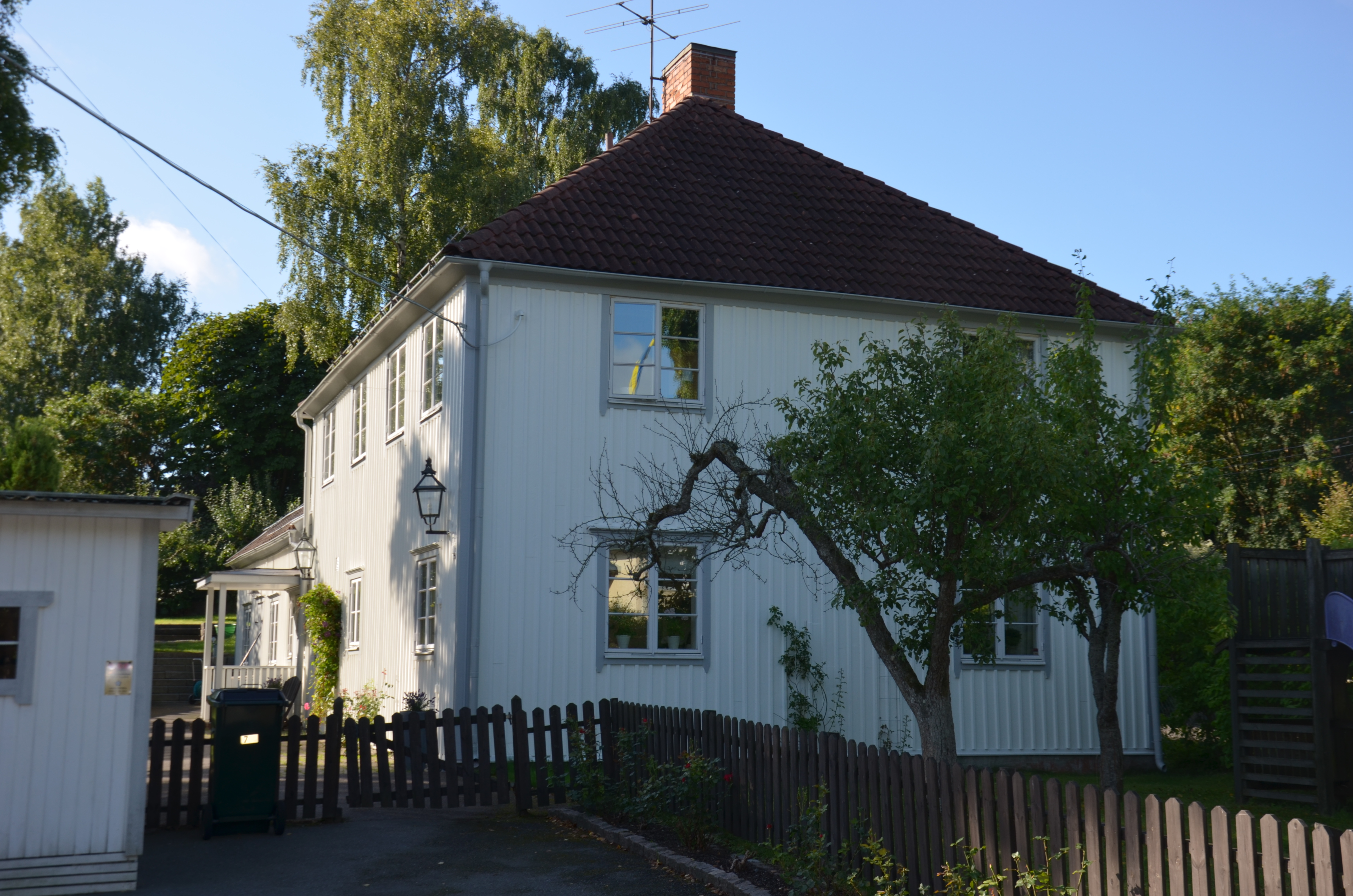 Tidigare butik för tidigare Konsumtionsföreingen Hoppet i Mälarhöjden